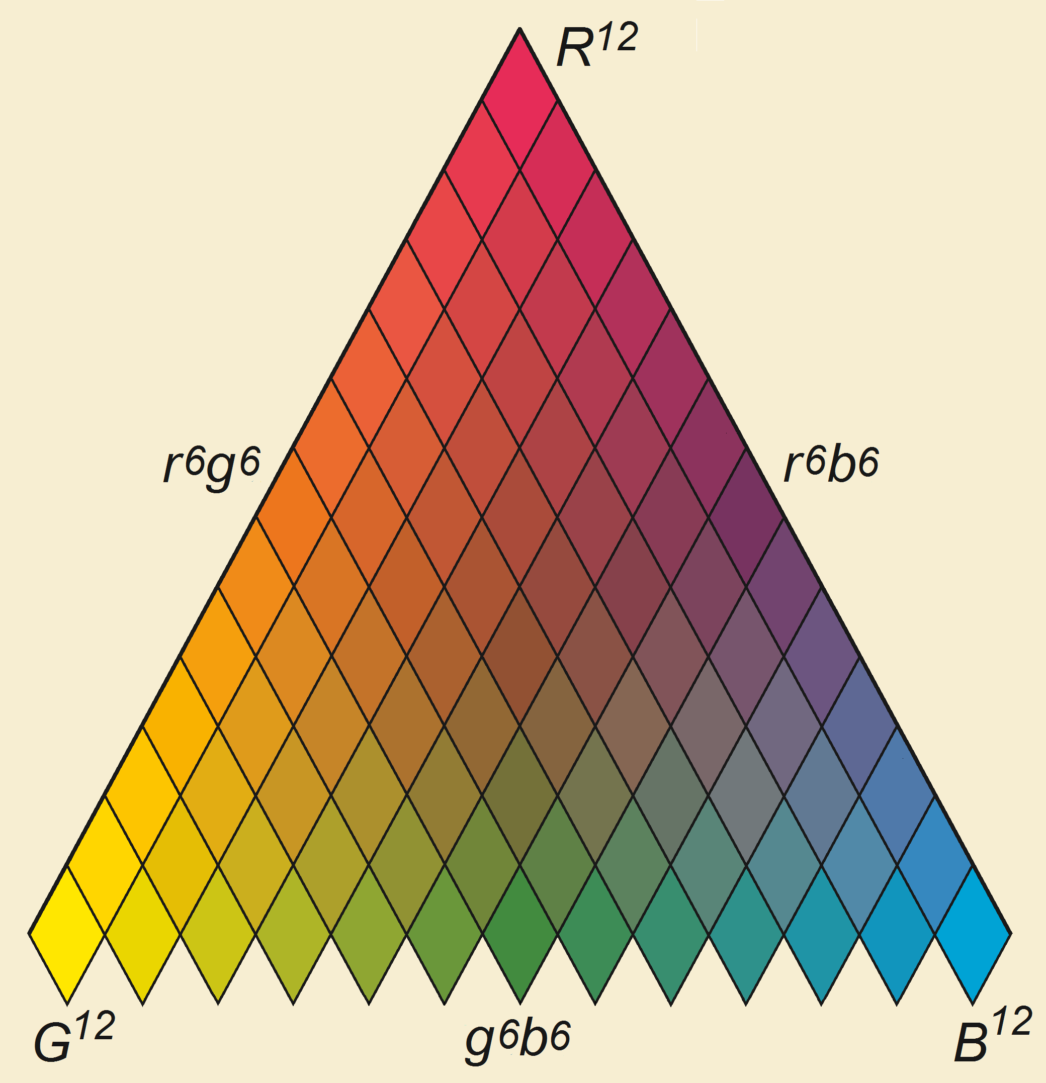 Tobias Mayer’s colour triangle (1758), a late-eighteenth century version of Jacques Lacombe. RYB color model.